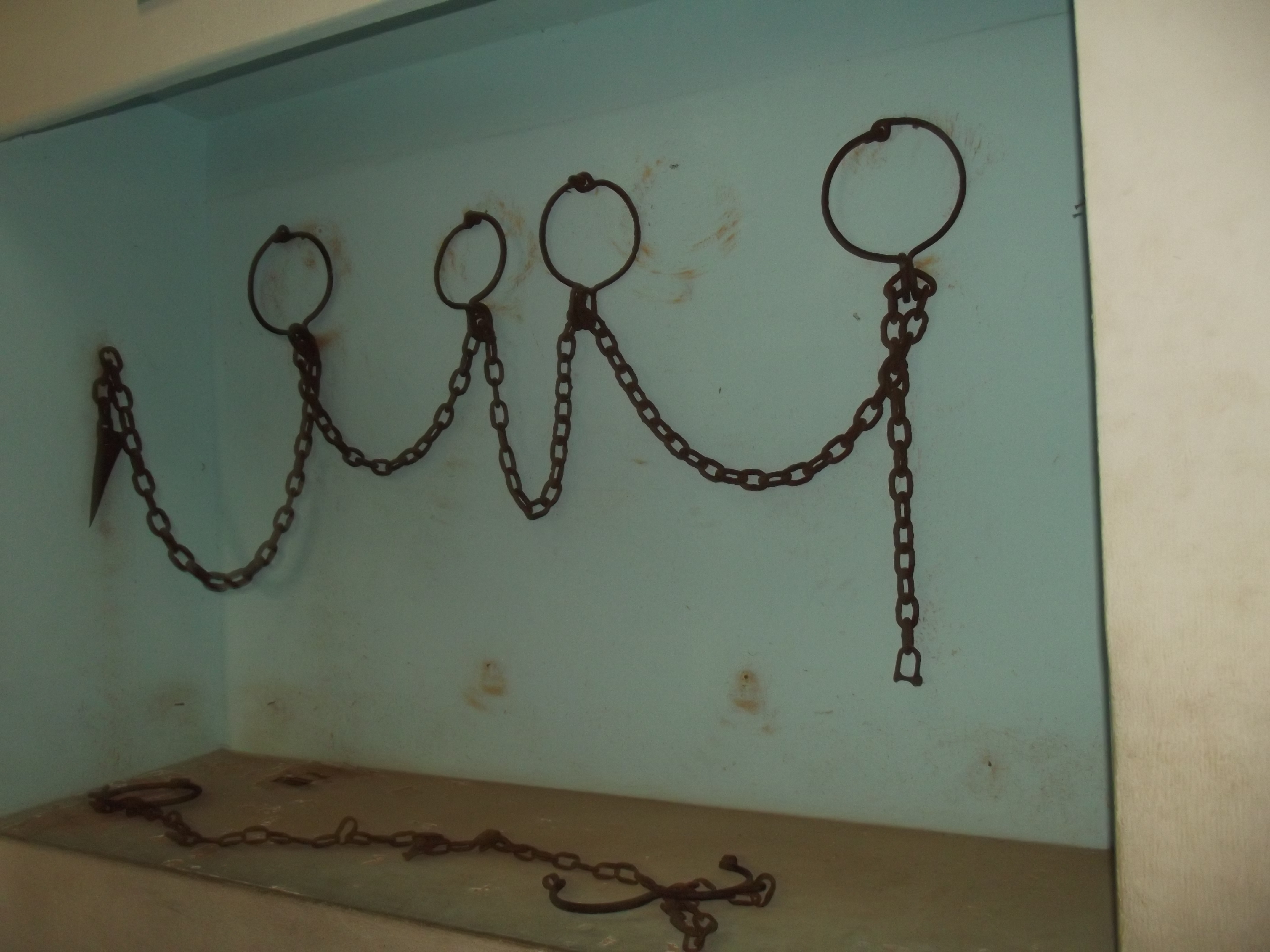 CHAINS USED DURING THE SLAVE TRADE. SLAVE RELICS MUSEUM, BADAGRy. This is an image of Cultural Fashion or Adornment from Nigeria